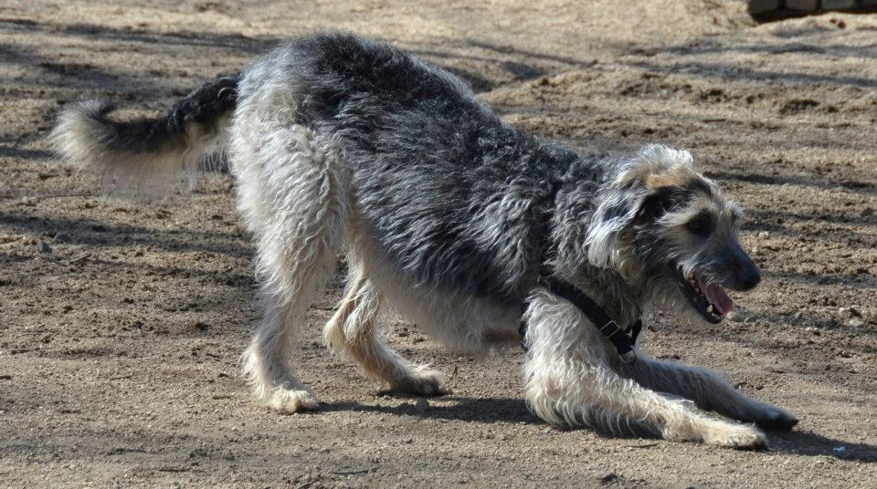 Scottish Deerhound Mix: Theodore Roosevelt Dog Park